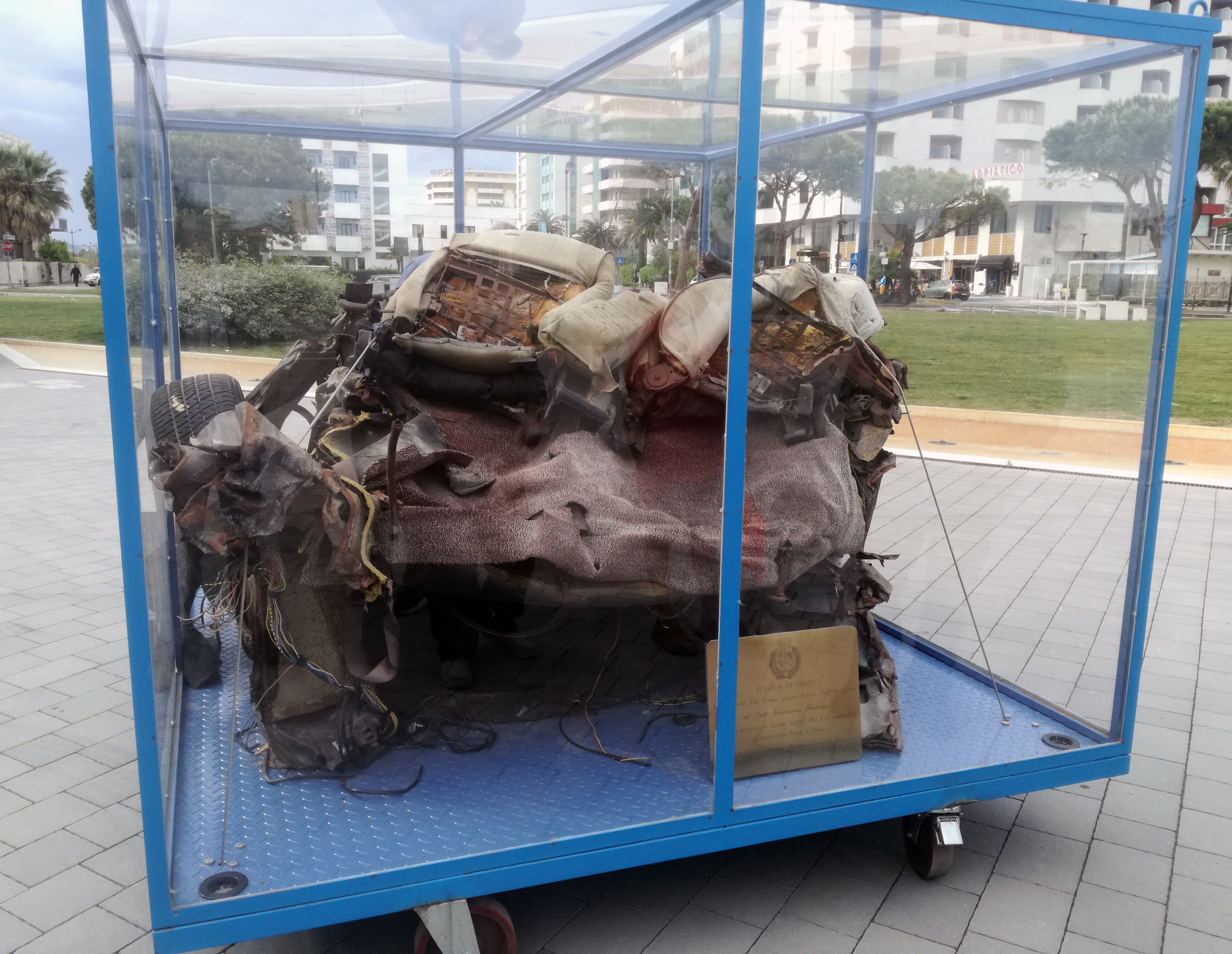 Remains of the Falcone escort's car